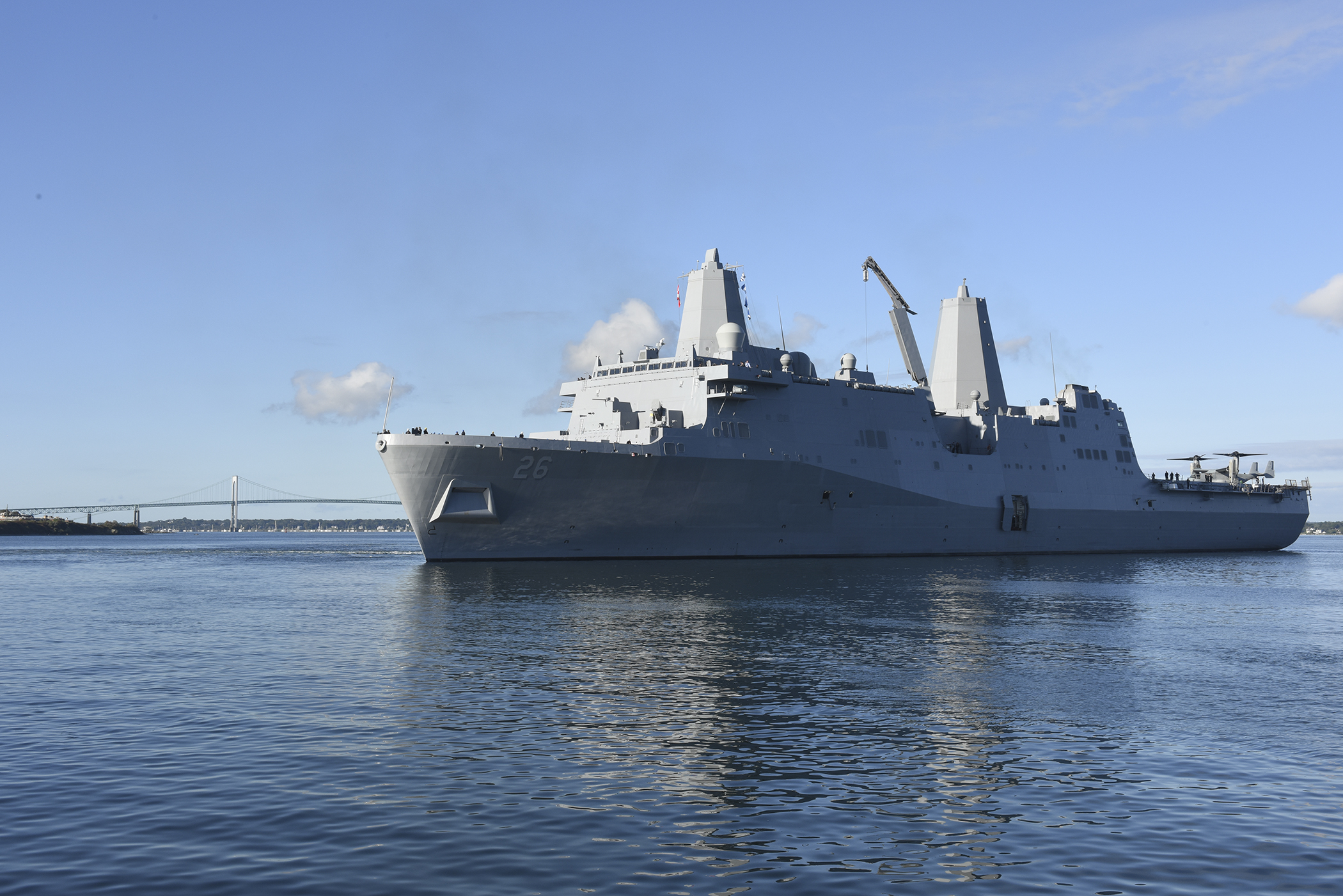 NEWPORT, R.I. (Sept. 16, 2016) The amphibious transport dock ship Pre-Commissioning Unit John P. Murtha (LPD 26) arrives at Naval Station Newport in preparation for the Chief of Naval Operations' 22nd International Seapower Symposium (ISS) at U.S. Naval War College in Newport, Rhode Island. More than 180 senior officers and civilians from more than 110 countries including many of the senior-most officers from those countries' navies and coast guards, are attending the biennial event Sept. 20-23. This year's theme is "Stronger Maritime Partners," and will feature guest speakers and panel discussions to explore the common security challenges of maritime nations.